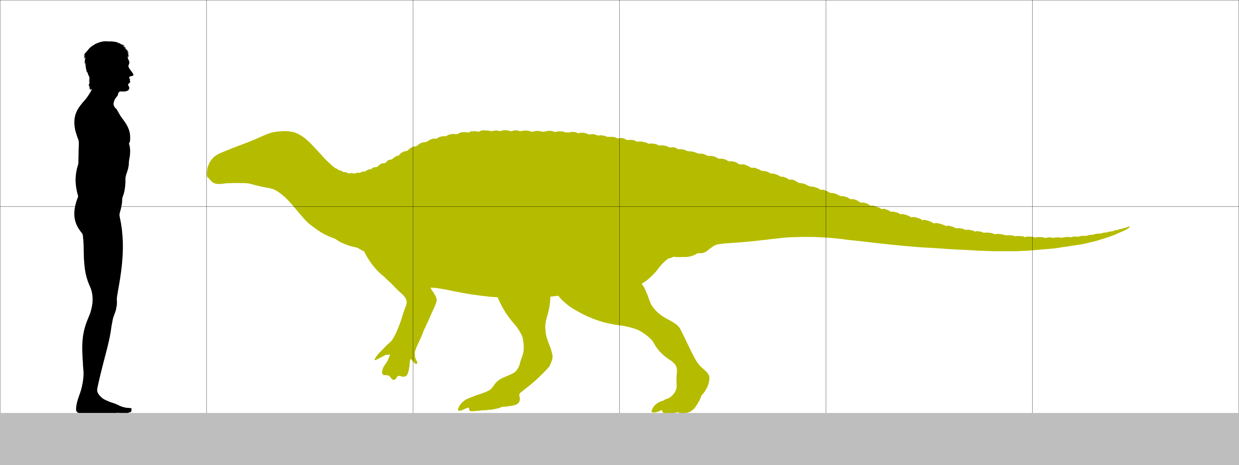 Size comparison between the basal ankylopollexian Hippodraco and a 1.8 m tall man. It is estimated at 4.5 metres (15 ft) long.[1] NOTE: Hippodraco have a large orbital on its skull, suggesting that is an inmature animal, it could have reached a larger size.[1] ___________________________________________________________________________________________________________________